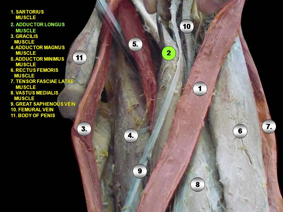 Anatomical dissections